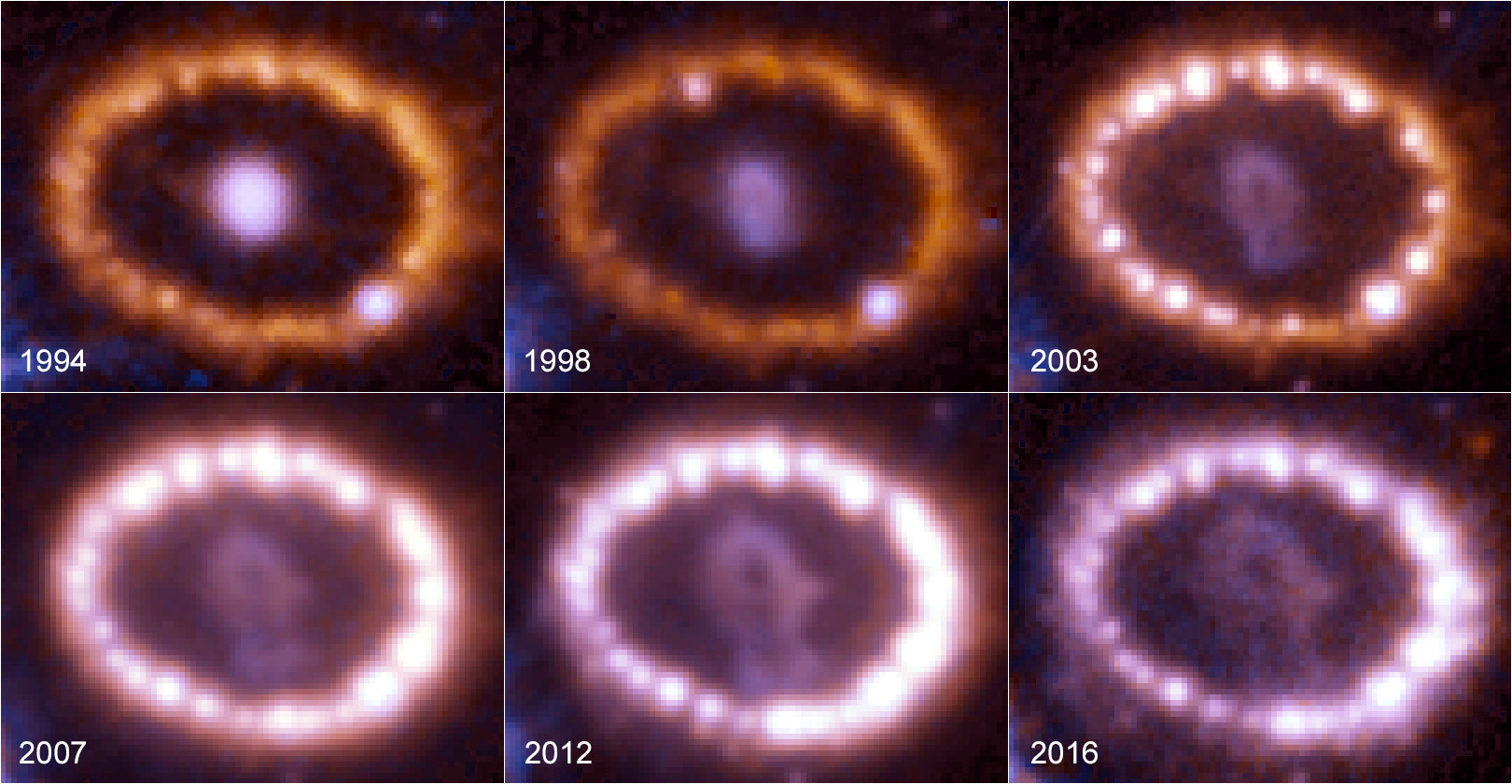 This montage shows the evolution of the supernova 1987A between 1994 and 2016, as seen by the NASA/ESA Hubble Space Telescope. The supernova explosion was first spotted in 1987 and is among the brightest supernova within the last 400 years. Hubble began observing the aftermath of the explosion shortly after it was launched in 1990. The growing number of bright spots on the ring was produced by an onslaught of material unleashed by the explosion. The shock wave of material hit the ring’s innermost regions, heating them up, and causing them to glow. The ring, about one light-year across, was probably shed by the star about 20,000 years before the star exploded. id# heic1704; id# STScI-2017-08